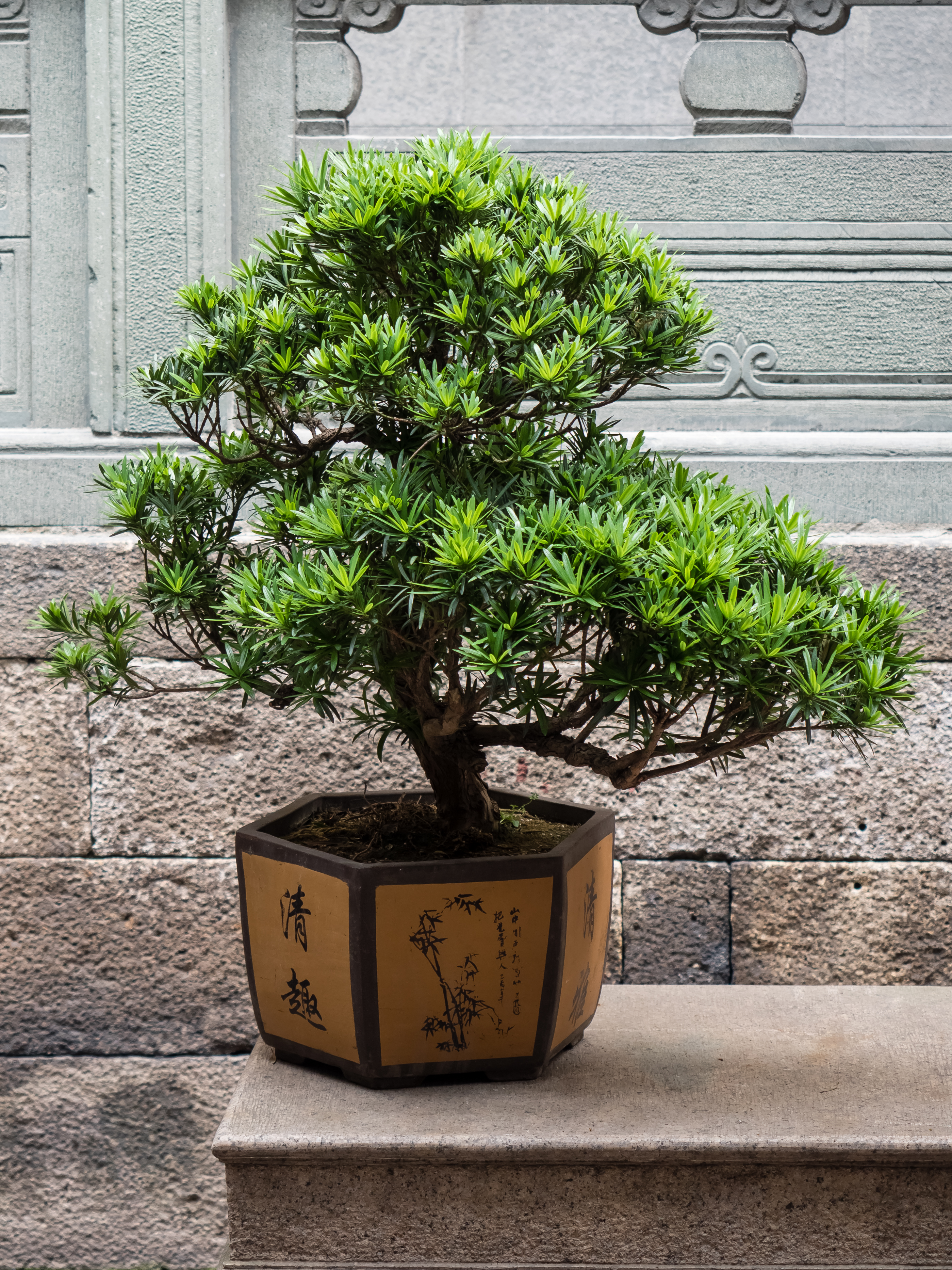 Bonsai in the Jade Buddha Temple in Shanghai